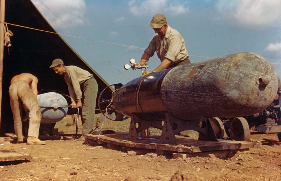 Mark XIII torpedoes receive maintenance from Marine air unit ground crewmen, at an Okinawa air field, 6 May 1945. Note the air pressure gages in use on the torpedo in the foreground, and bar fitted through the other torpedo's nose ring.